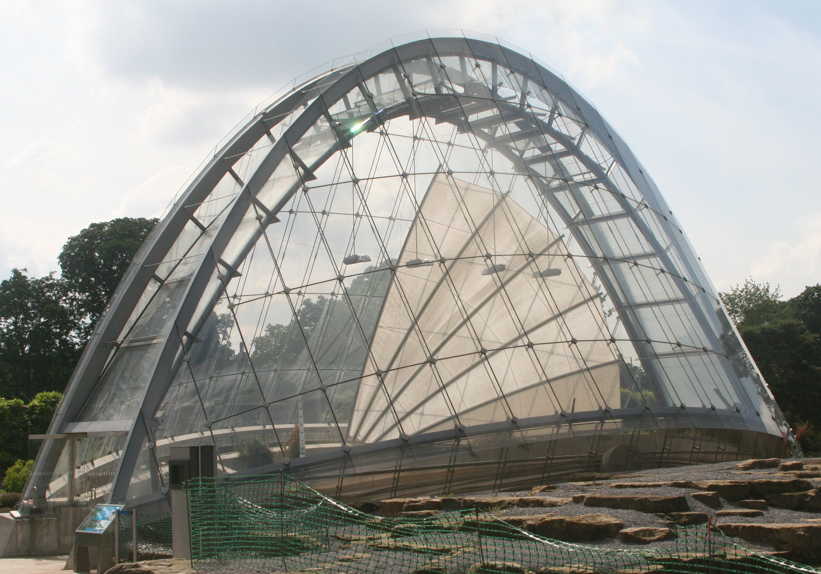 The Alipne House at Kew Gardens